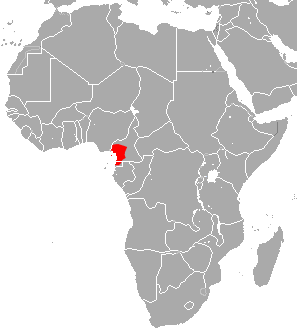 Short-tailed Roundleaf Bat (Hipposideros curtus) range